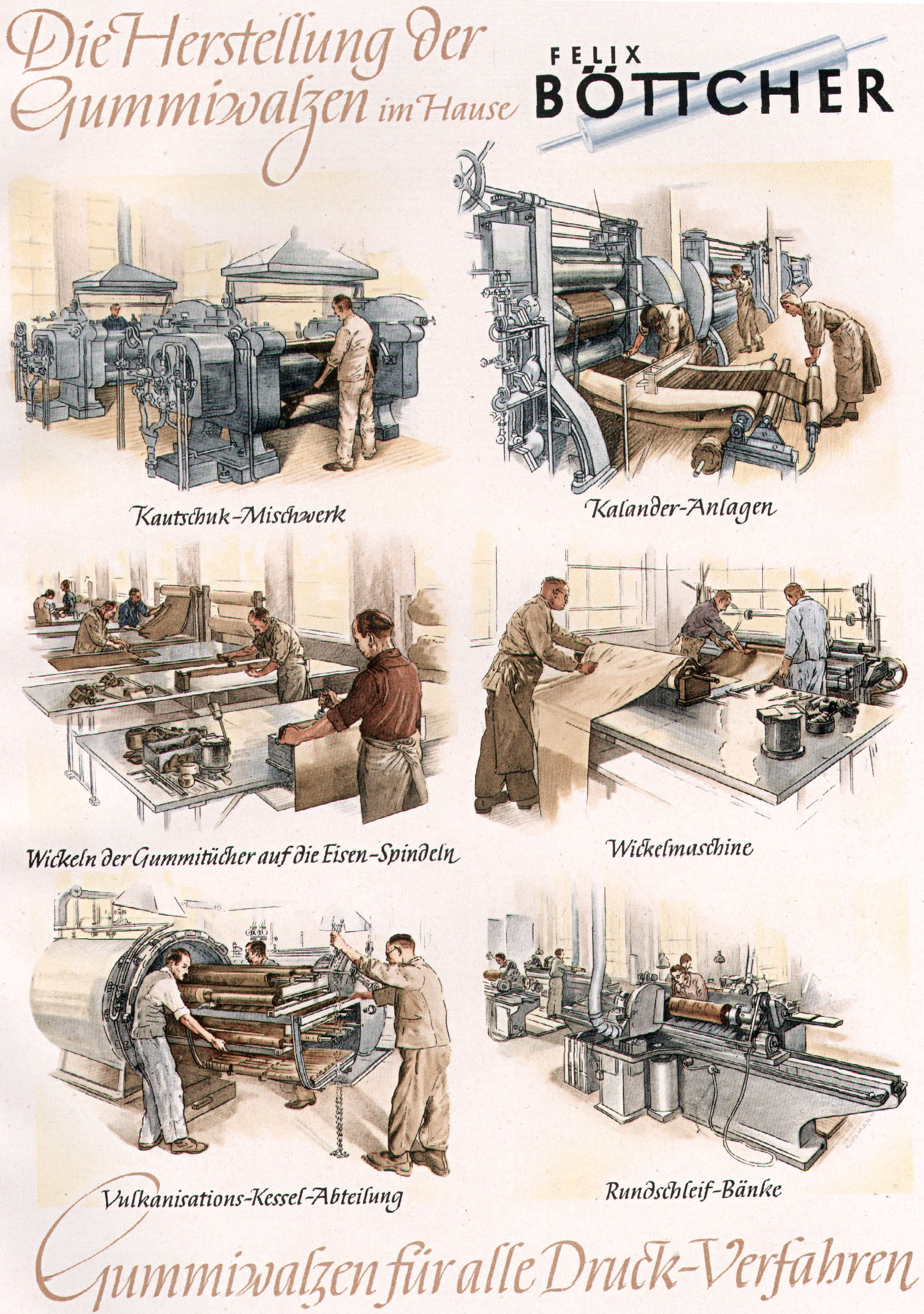 history